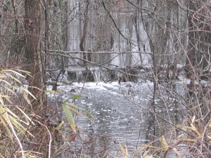 Beaver dam in Nesmith, South Carolina